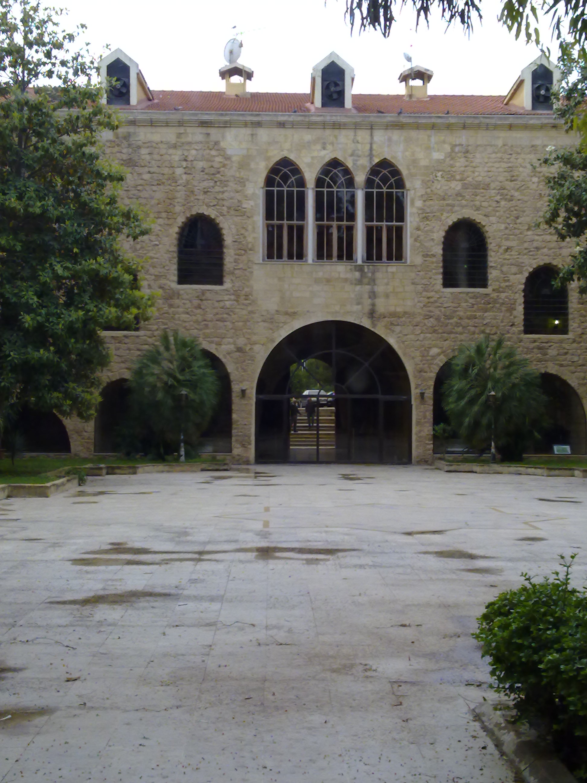 An inner courtyard view of the Lebanese Council for Development and Reconstruction building in Beirut, Lebanon.